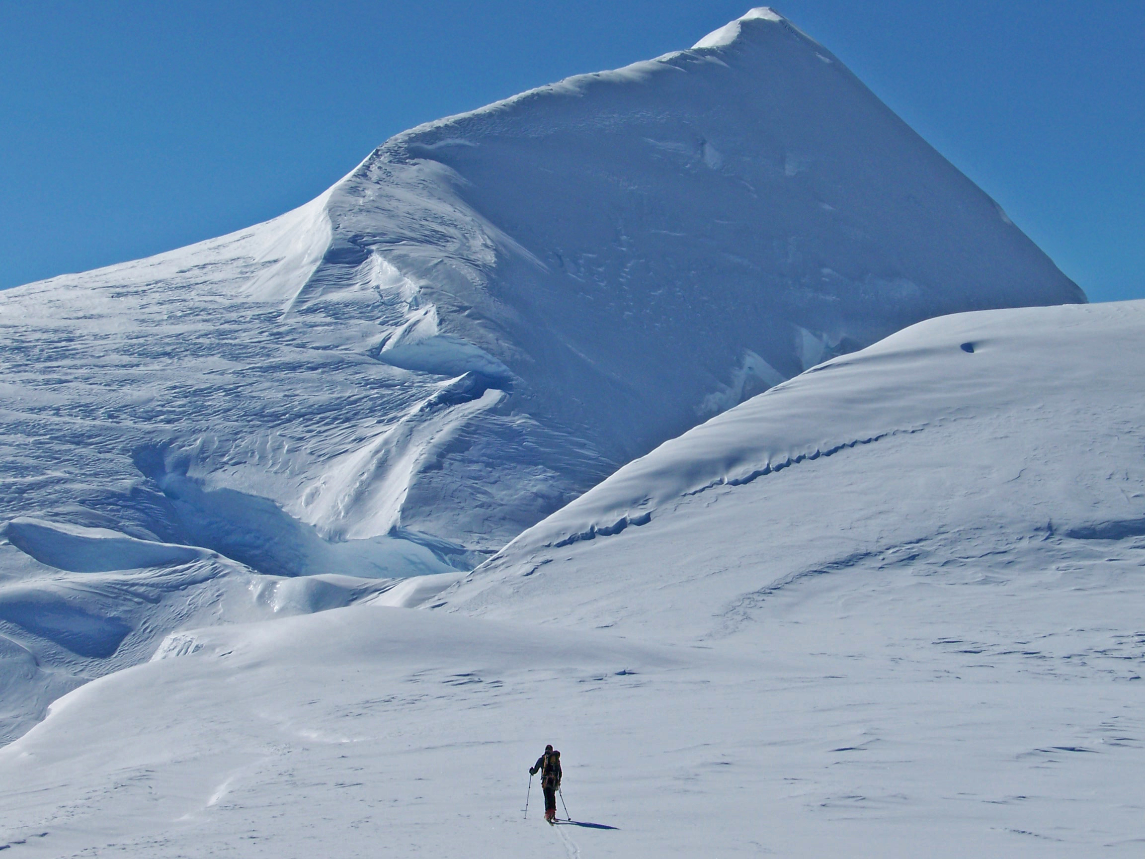 The Dome the second highest mountain in Greenland.